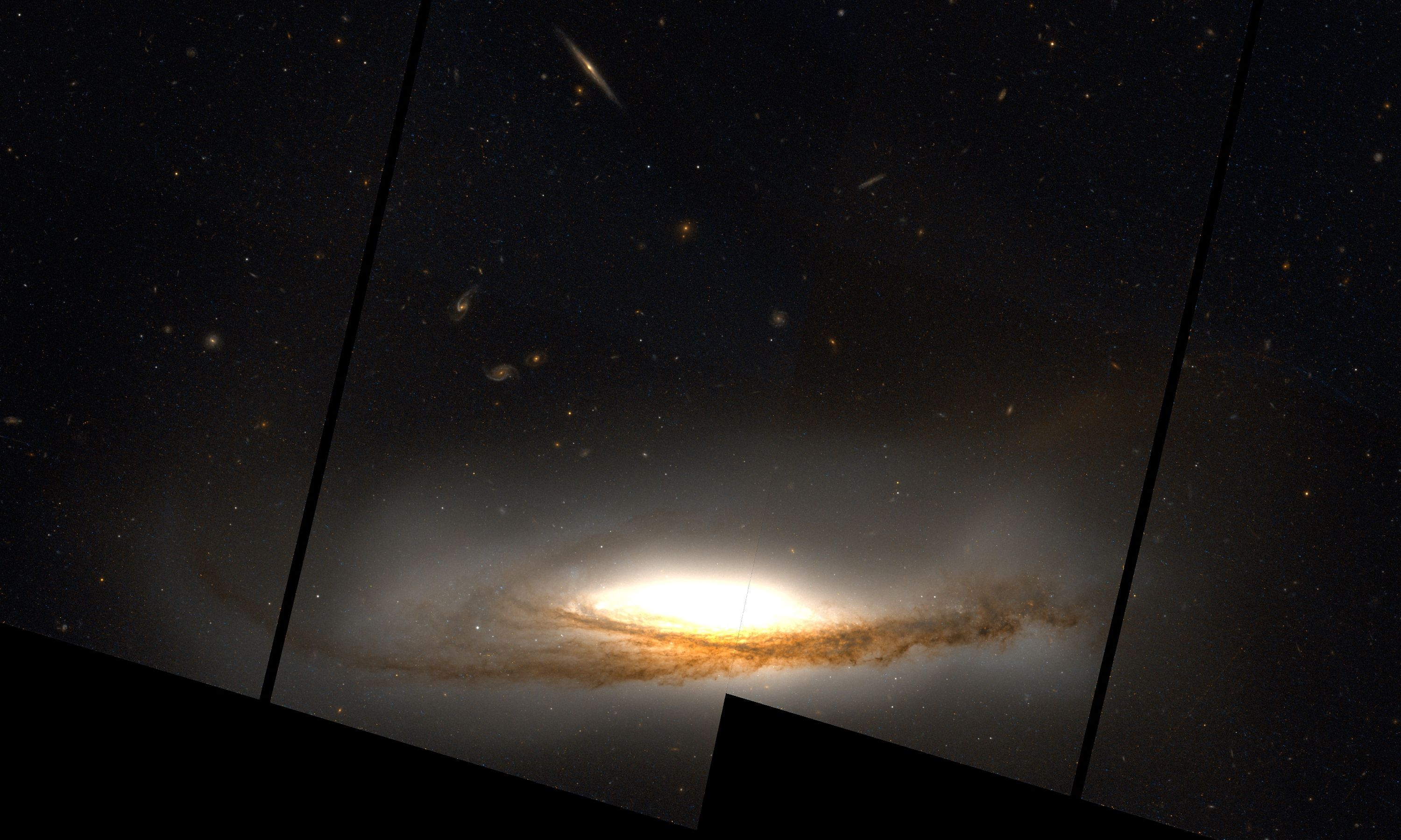 NGC 3190 spiral galaxy. Mosaic by Hubble Space Telescope. 4.2′ x 2.52′ view